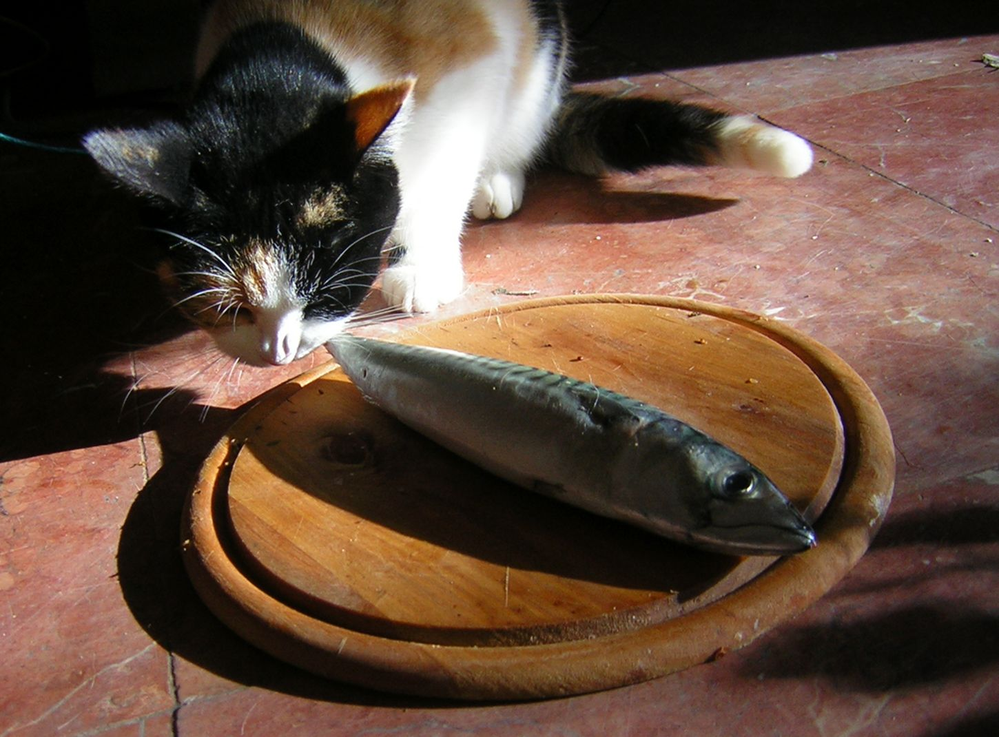 cat and fish